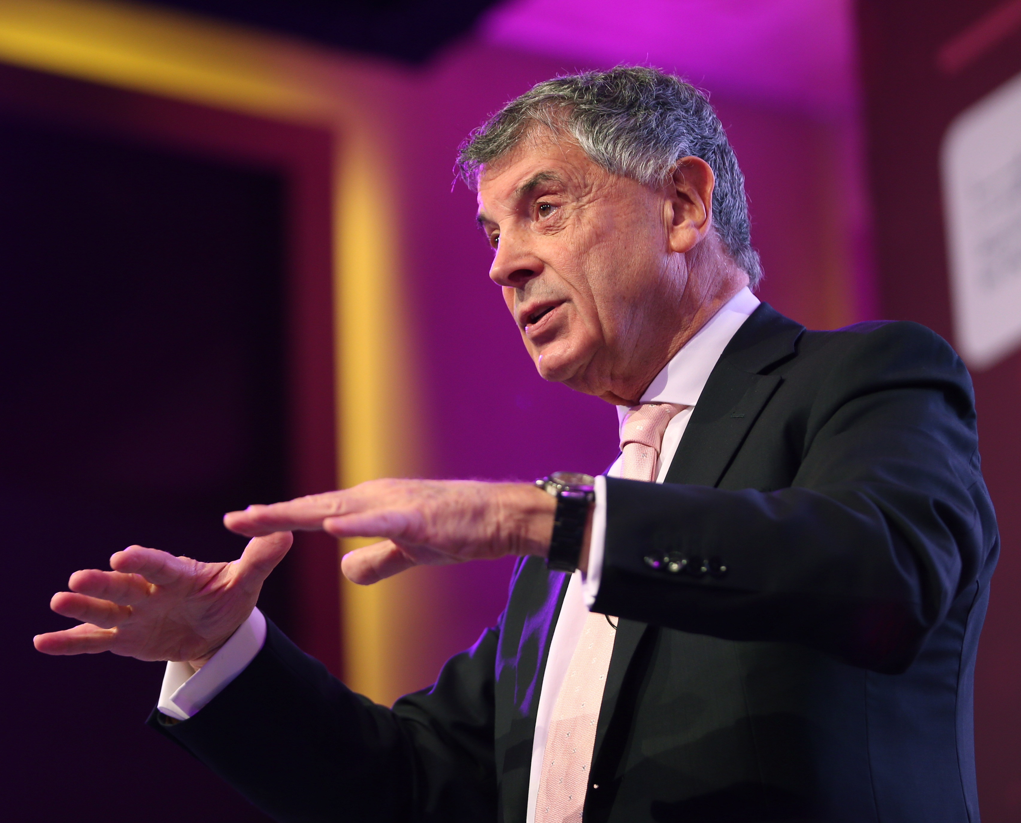 Former England FA and Arsenal vice-chairman David Dein speaks at the Soccerex Asian Forum in Doha. Doha Stadium Plus/K Mohan